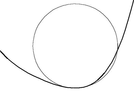 An osculating circle. Author R. Morris created using SingSurf with equations X = x; Y = a x^2 + b x^3 + c x^4; Z = 0; a = 0.5; b=0.3; c=0.1; and unit circe